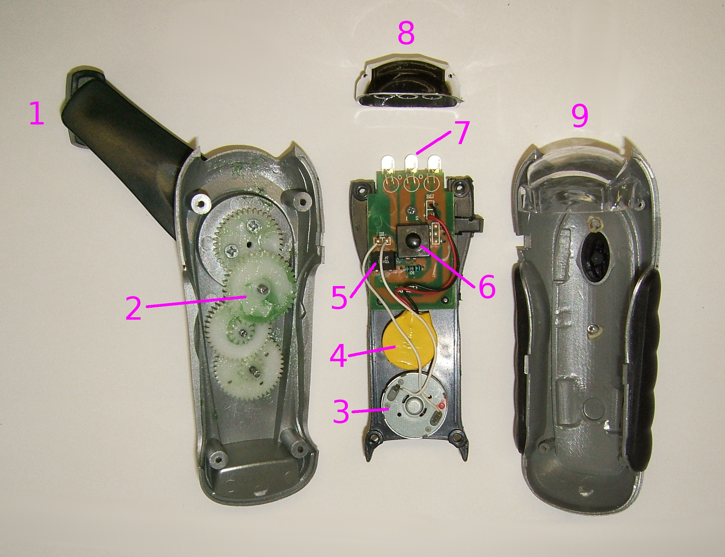 A crank-powered flashlight, disassembled to show internal mechanism. This type of flashlight is powered by a battery that is charged by a generator turned by a hand crank. It is used as an emergency light or for remote areas like vacation cabins, since replaceable batteries in flashlights eventually lose their charge during storage. It has 2 power levels: pushing the switch once turns on one LED, pushing it again turns on all three. 1 minute of cranking provides about 30 min of light on low setting, 25 min on high. Labeled parts: Crank Reduction gear train (120:1) to run generator Permanent magnet brushless AC generator Lithium-ion rechargeable cell, LIR2032, 3.6V, 35 mAh Full-wave rectifier to change AC from generator to DC to charge cell Pushbutton switch, 3 position 3 LED (light emitting diode) lamps Reflector housing Plastic cover